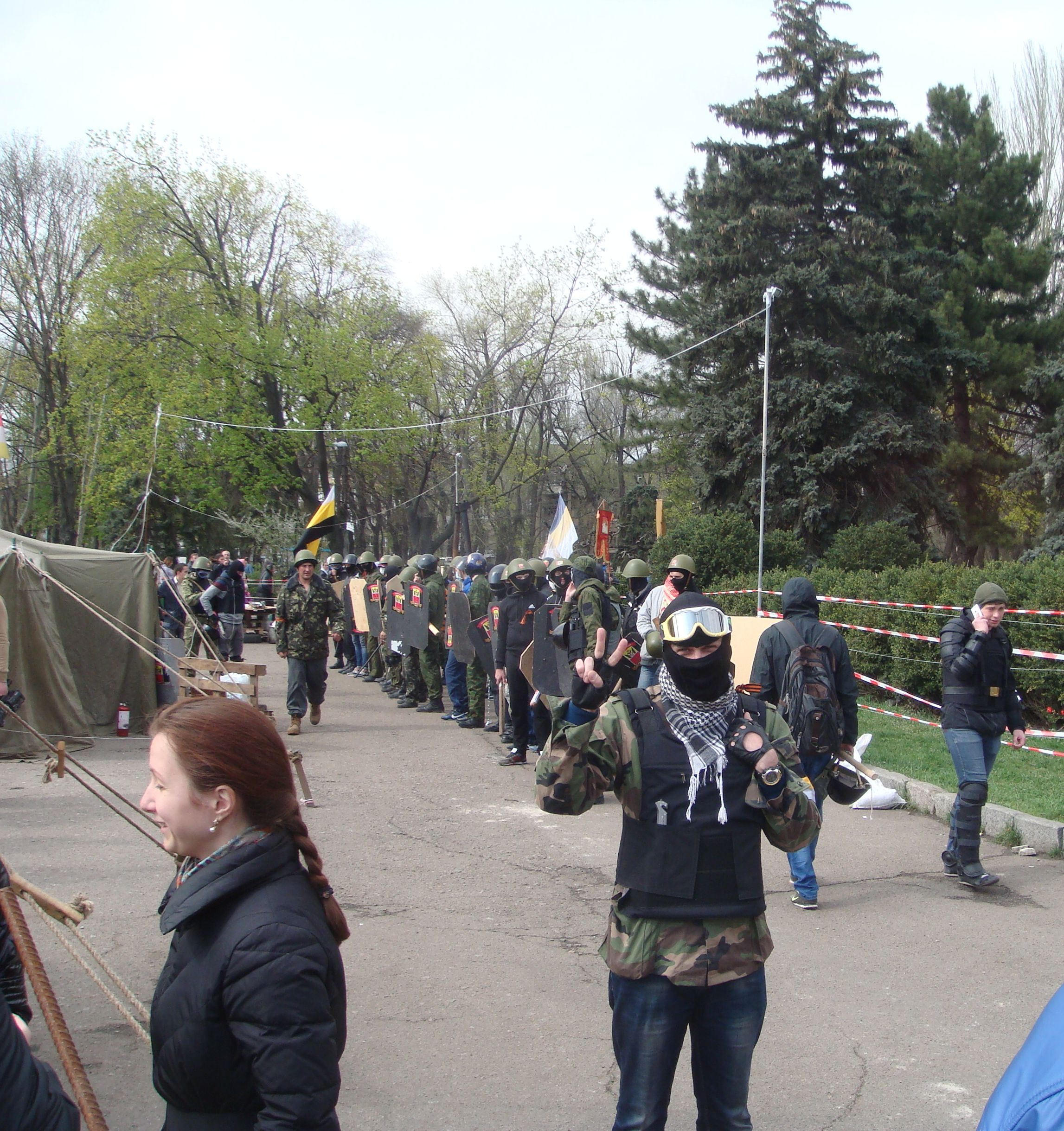 Pro-Russian meeting in Odessa on 2014-04-13. Camp of local militants - "Odesskaya Druzhina", ready to protect protesters during meeting.